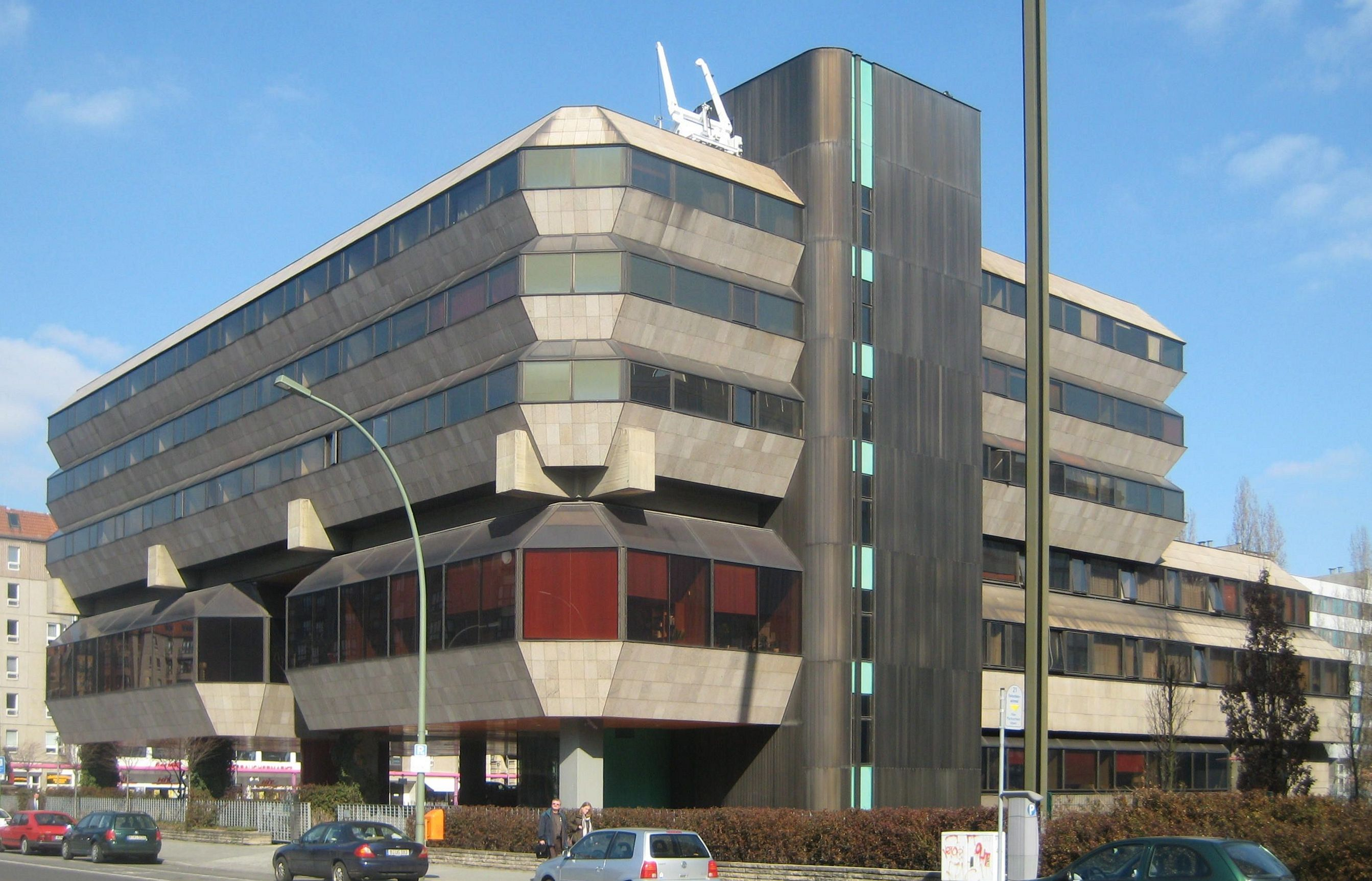 Embassy of the Czech Republic at Wilhelmstraße No. 44 in Berlin-Mitte. The buildings was constructed as the embassy of Czechoslovakia from 1974 to 1978 to a design by the architects Vera Machonina, Vladimir Machonin and Klaus Pätzmann on what was then Thälmannplatz (until 1949: Wilhelmplatz). The building shows the influence of the brutalist architecture.